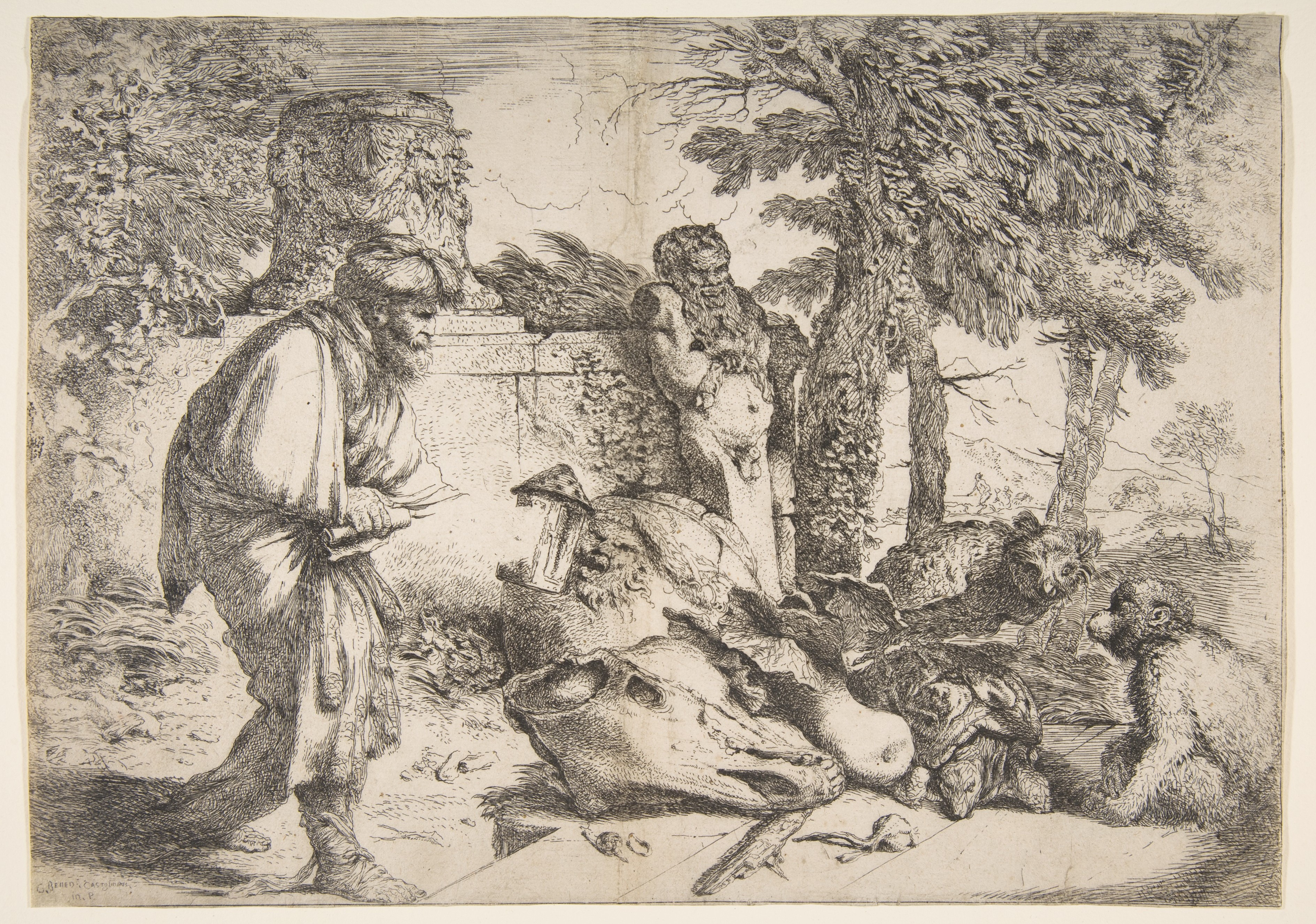 The Philosopher Diogenes in Search of an Honest Man